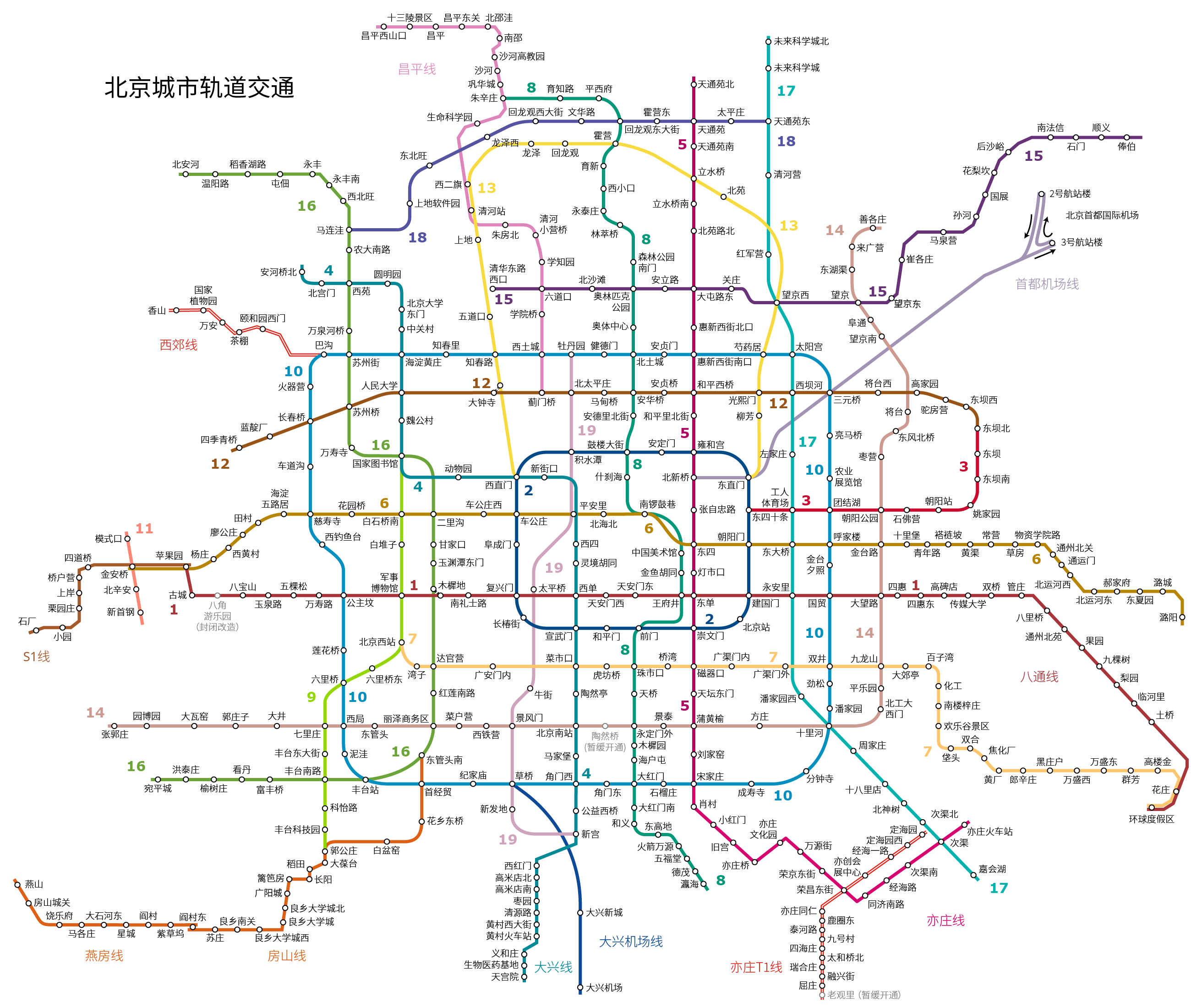 Beijing Subway